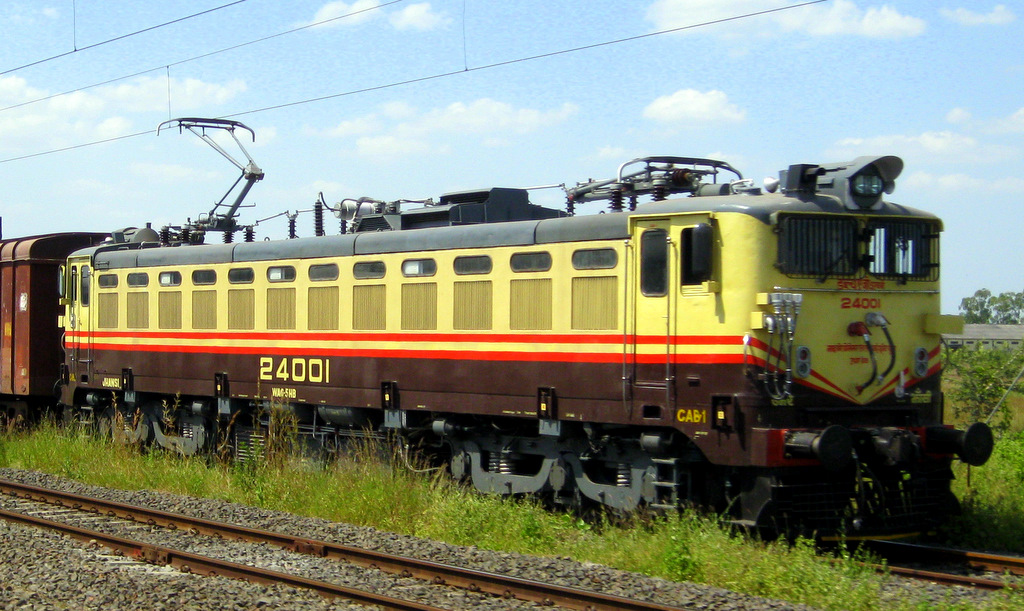 WAG-5HB 24001 homed at Electric Loco Shed,Jhansi